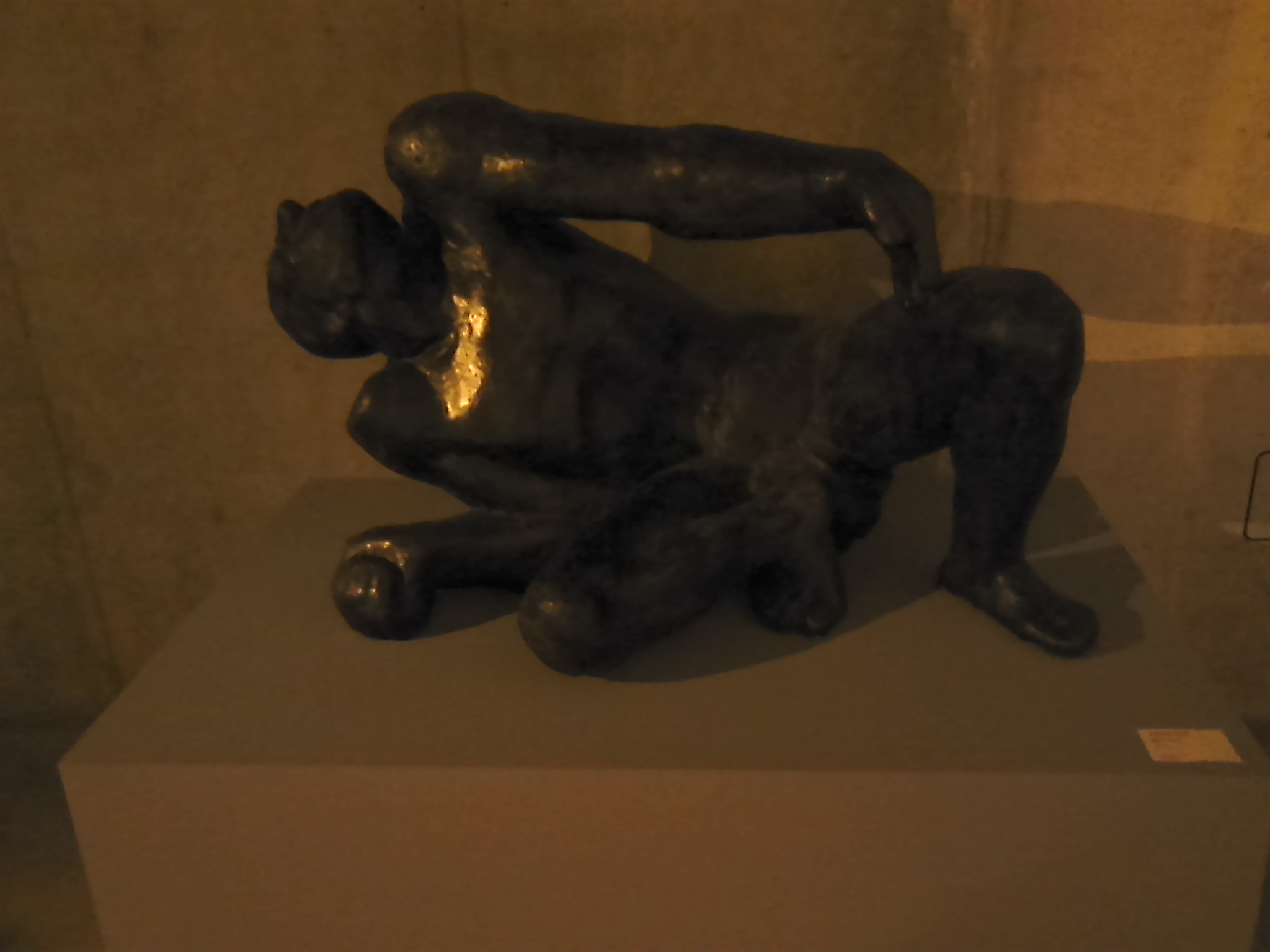 Sculpture of Renè-Marie Leleu Héros mourant in Palais des beaux-Arts de Lille.